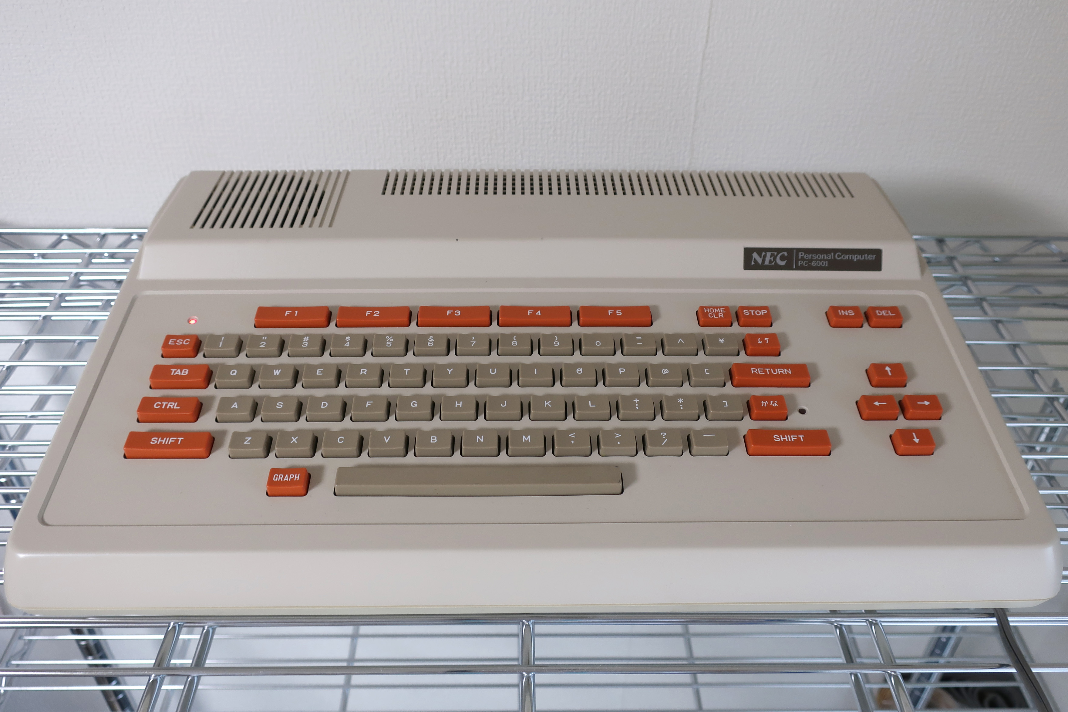 NEC PC-6001 Japanese home computer released in 1981, without brown keyboard sheet.